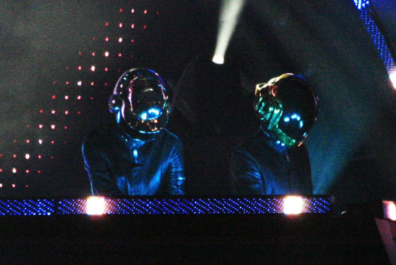 Daft Punk at O2 Wireless Festival, cropped from larger photo